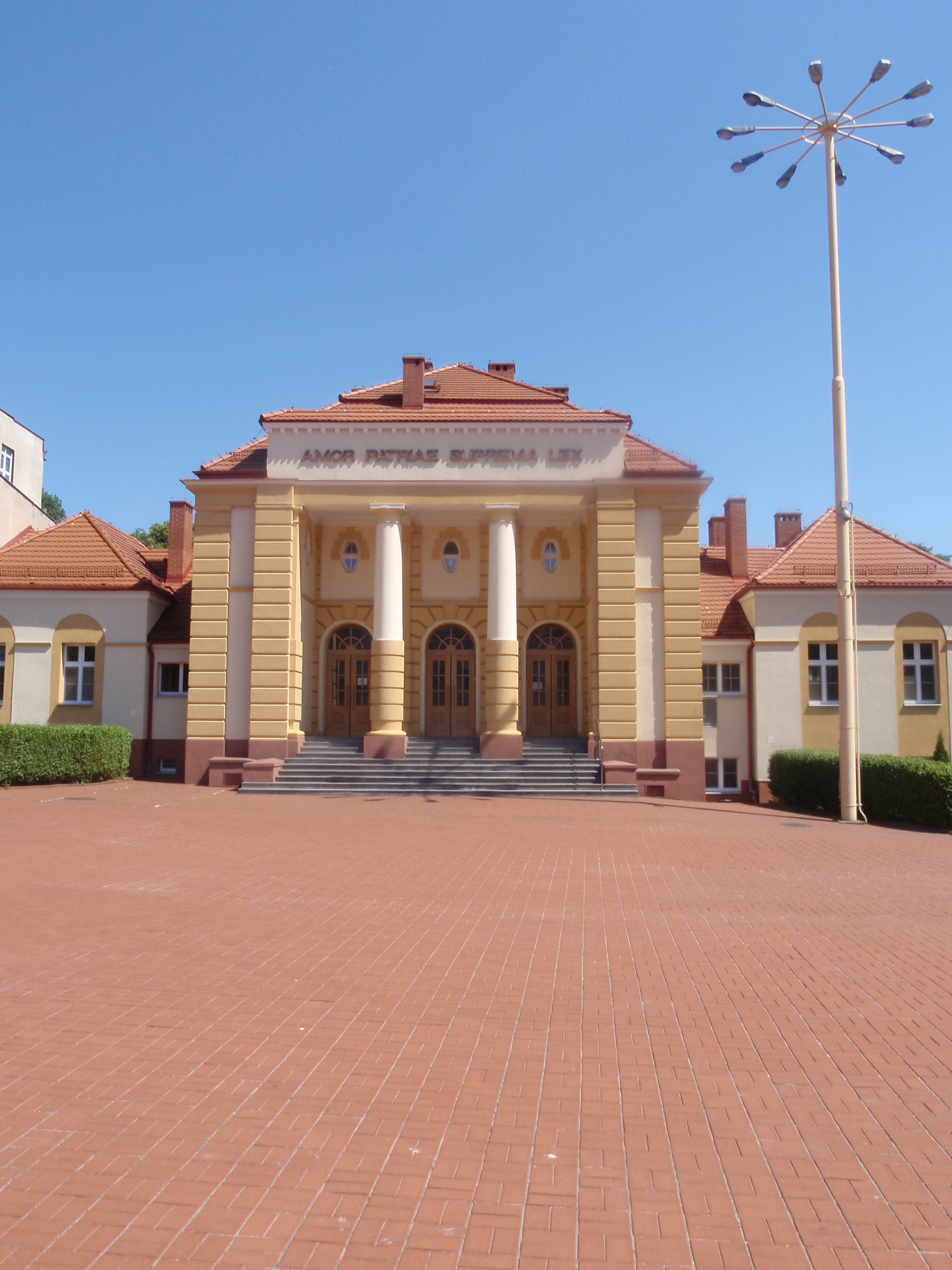 building marked "AMOR PATRIAE SUPREMA LEX" at Polish Naval Academy in Gdynia